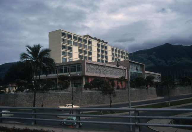 LEGISLATIVE PALACE COMPLETED IN 1960. NOTED FOR ITS BAS-RELIEFS ON THE FACADE